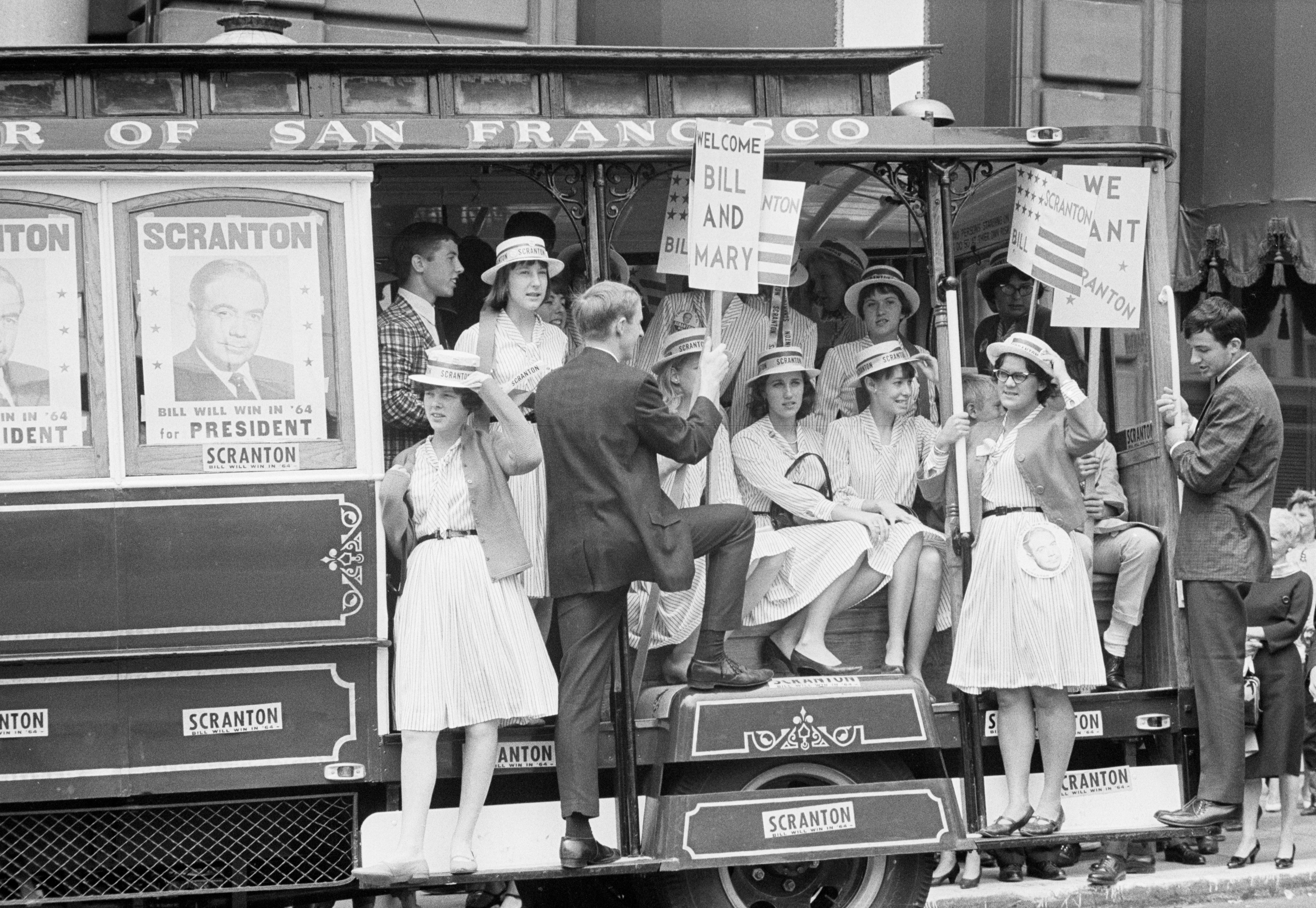 Scranton supporters ride a decorated San Francisco trolley car during RNC